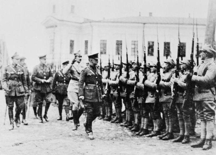 Polish, British and French officers inspecting a detachment of Polish troops of so called Murmansk Battalion before their departure for the front, Archangel 1919.